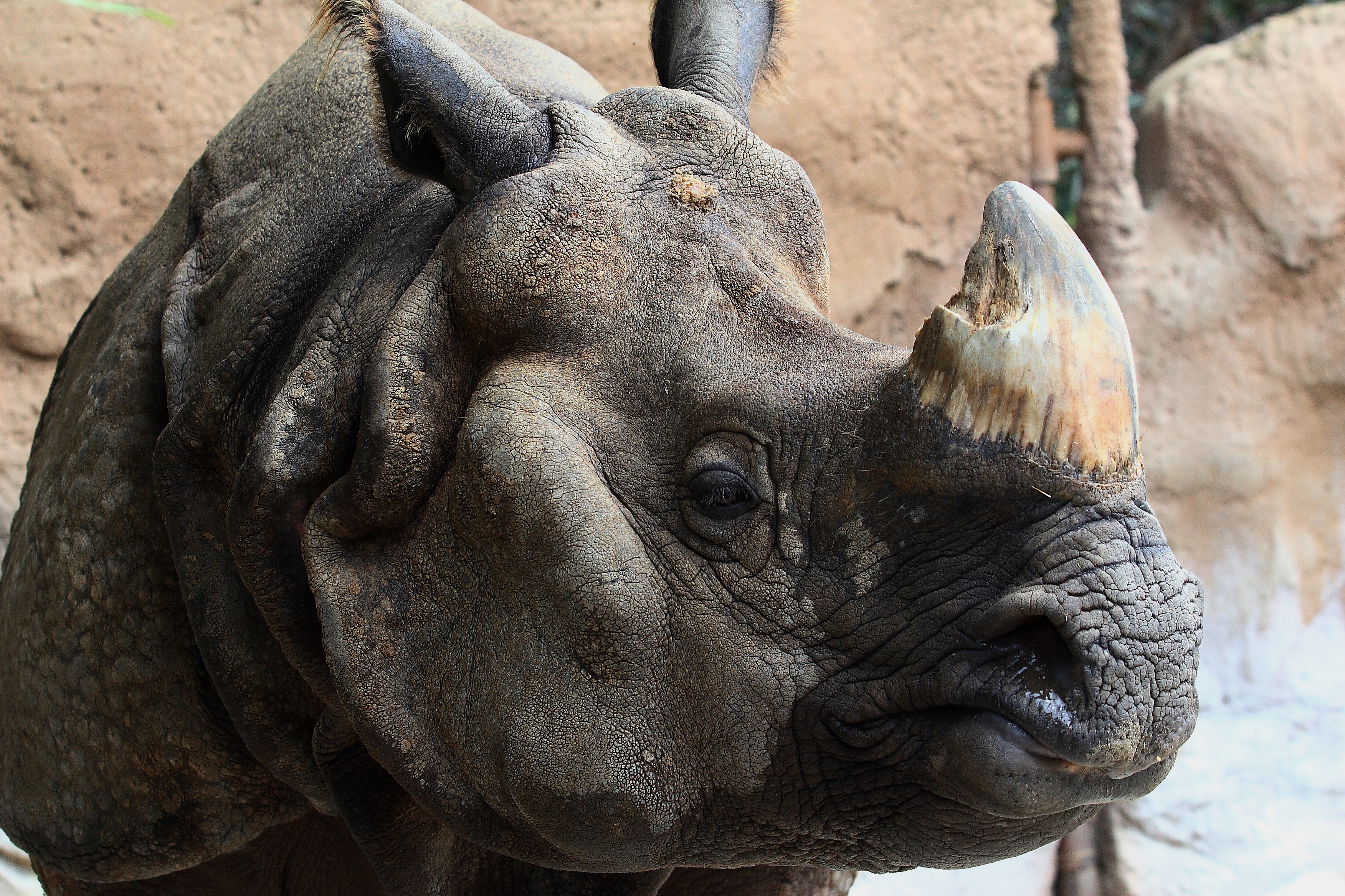 Indian rhino's head close up.